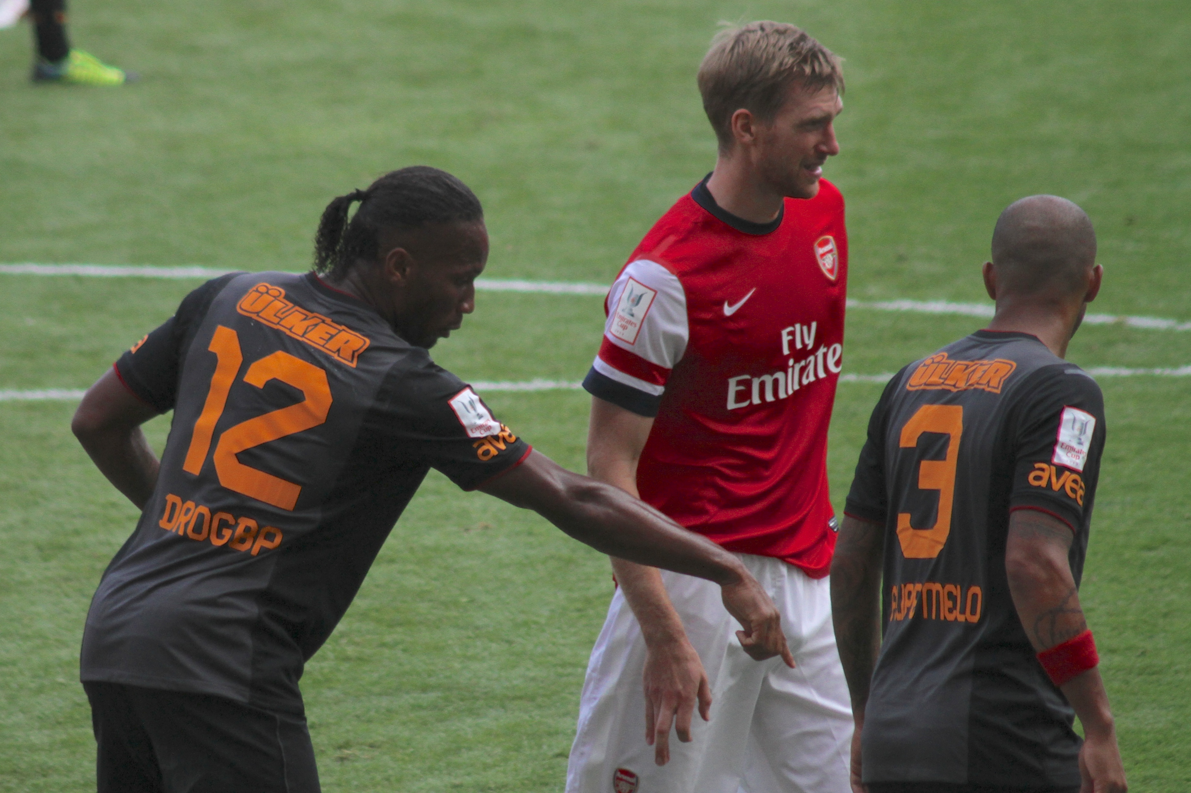 2013 Emirates Cup, Didier Drogba, Per Mertesacker & Felipe Melo